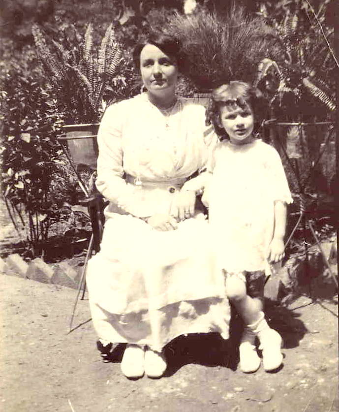 Anglo-Indian mother and daughter (abt 3.5 yrs old) in 1920. Original caption: July 1920 : India : Possibly Cawnpore or Allahabad. ' Nana ' , Florence Irene Harrington, poses with eldest child Cynthia ( my mother ) who was 3 yrs and 8 months old when the photo was taken.